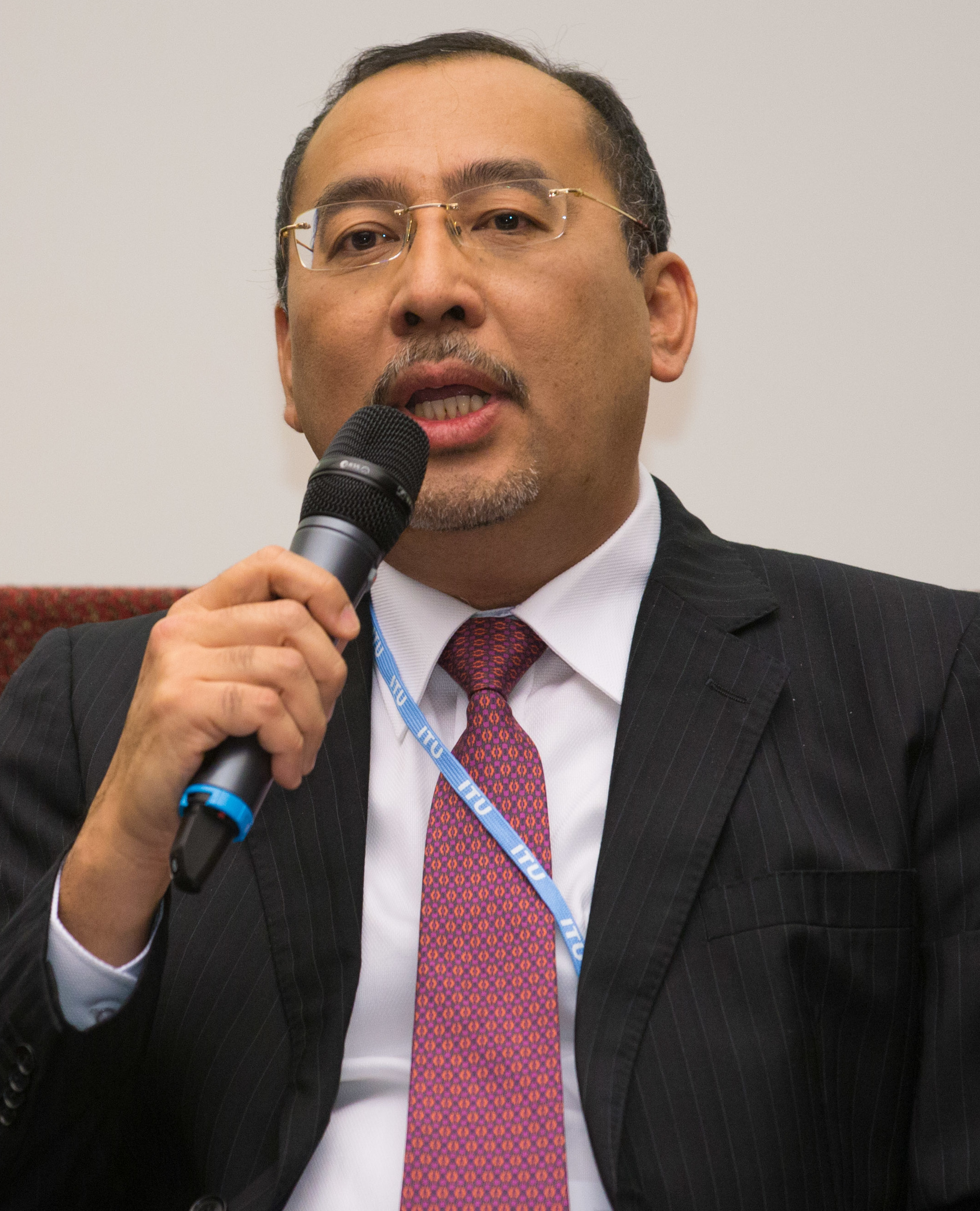 WSIS 2016 - Day 3 - 4th May 2016 H.E. Mr Jailani Bin Johari, Deputy Minister, Ministry of Communications and Multimedia, Malaysia (TBC)Session TWELVE: Enabling Environment; Cybersecurity; Climate Change, Malaysia ©ITU/I.Wood